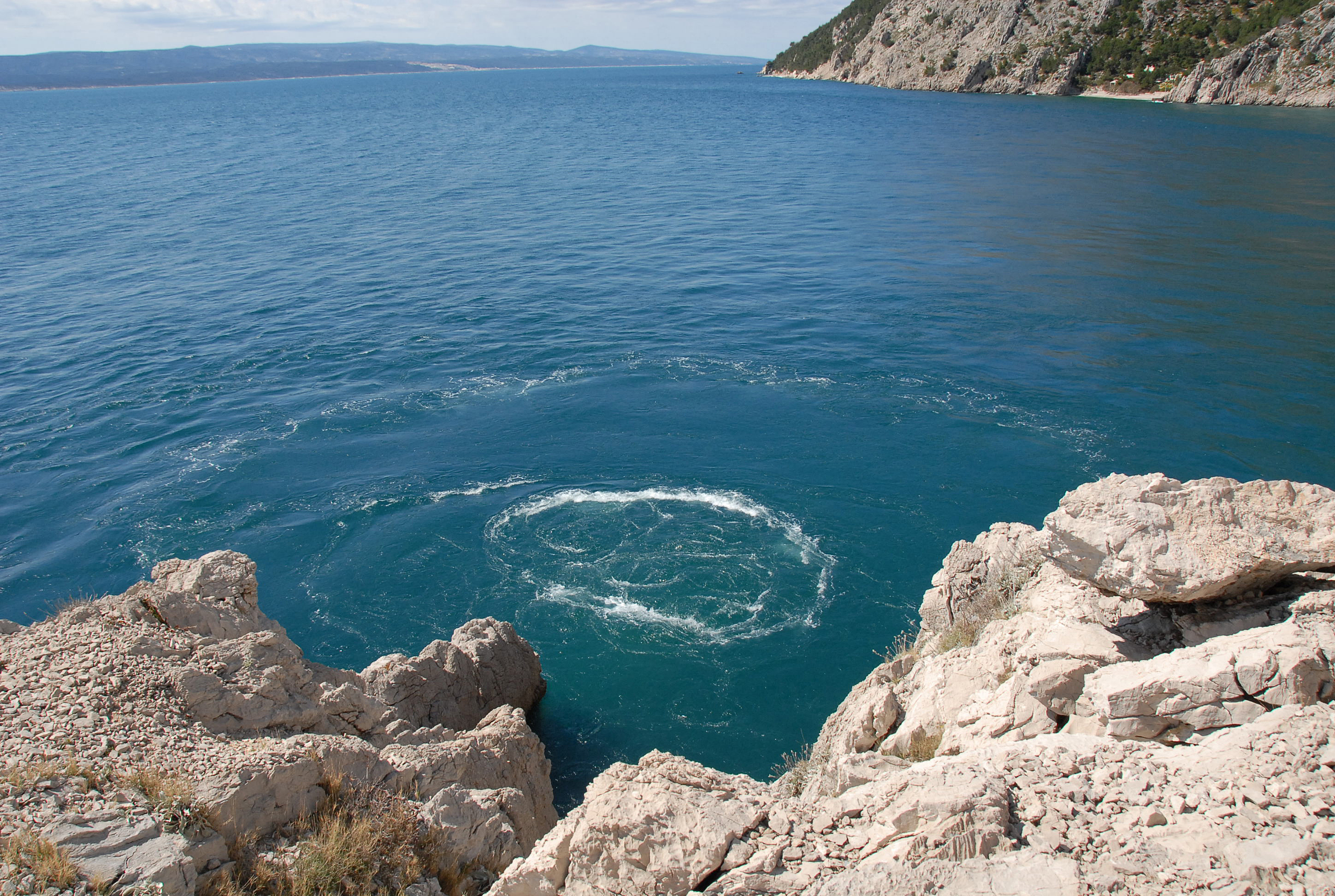 Submarine karst spring (“Vrulja”) at the coast of Croatia, north of Brela. As the hydraulic head seems to be strong, the intrusion uprising of the karst conduit’s freshwater is well visible. Depending on more or less intrusion at the outlet, there is Chloride intrusion – at least by tectonic fissures in karstic rocks, which - inevitably -remain in contact with sea water. The Adriatic Sea is flanked by the karstic Dinaric Alps. This is why there are numerous submarine springs along the coastline from Slovenia to Albania. Since late Pleistocene the water table of the Adriatic Sea rose by ca. 120 m. Springs that emerged on the surface became submarine.